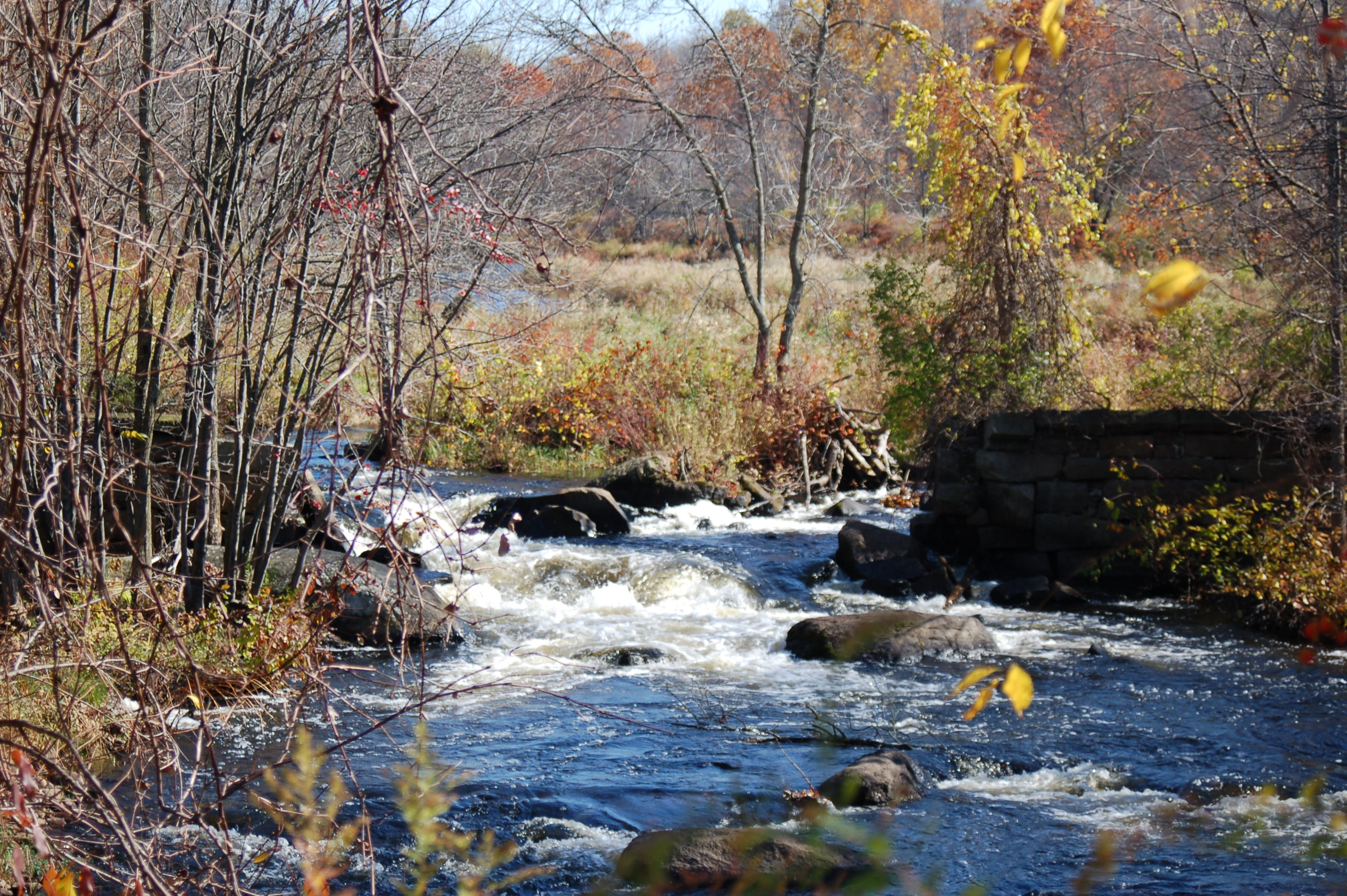 Broken Dam on the Quaboag River Photo by Author, Richard B. Johnson